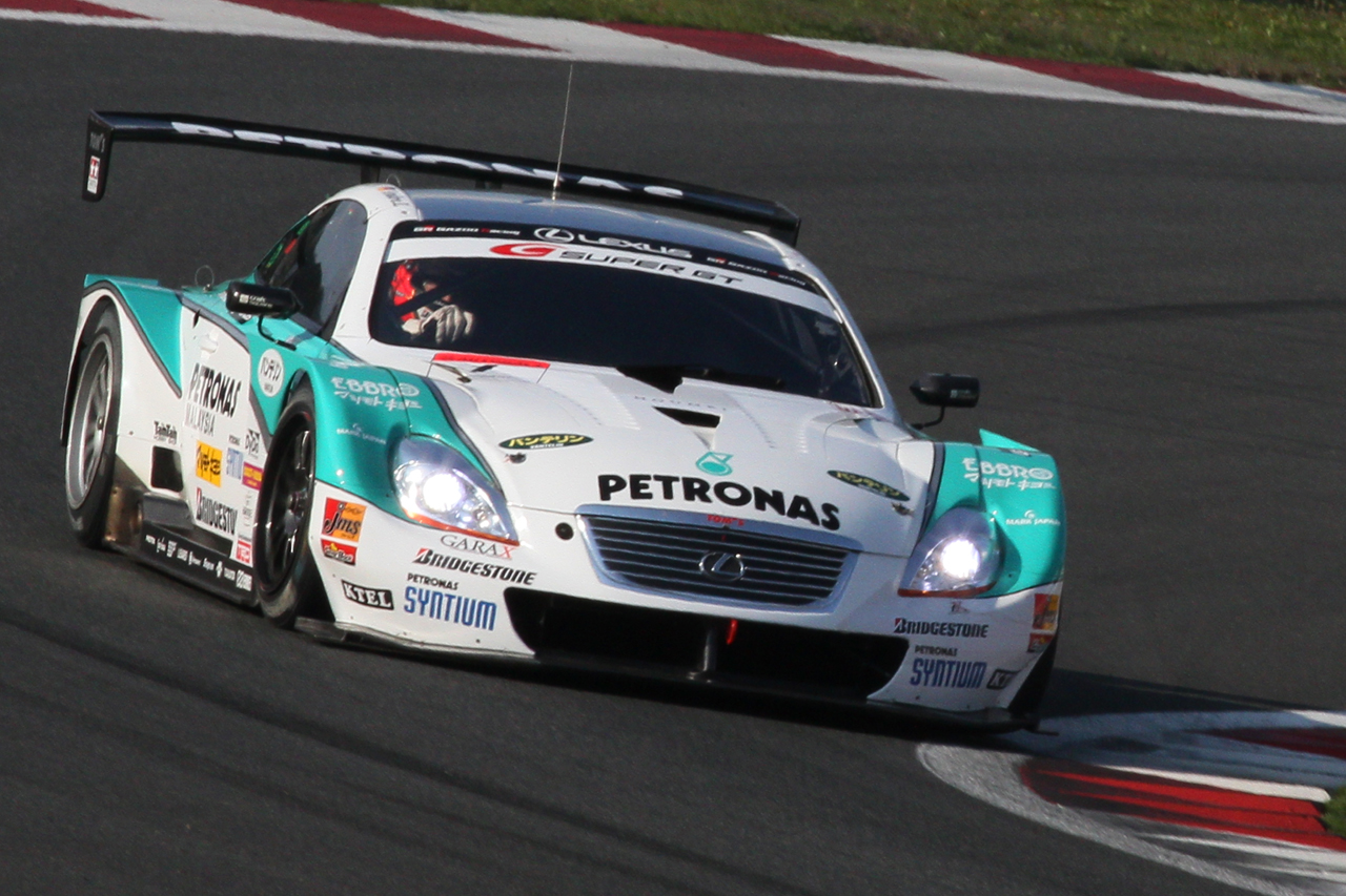 Super GT 2010 Rd.3 Fuji GT 400km: André Lotterer (Lexus Team Petronas TOM'S) driving the Petronas TOM'S SC430 in the 'Super Lap' of the qualify session.